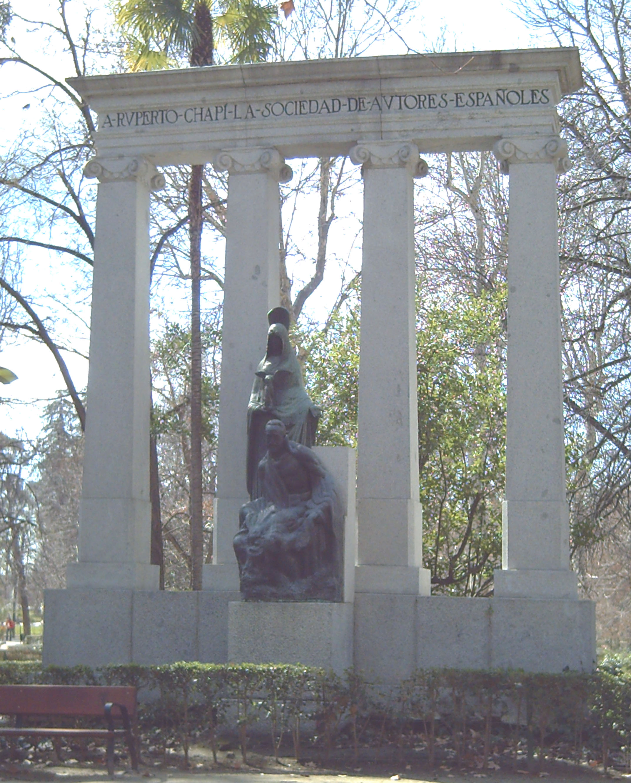 Monument to Ruperto Chapí (1851–1909). Granite and bronze. Measurements: 6.20 x 5.90 x 2.45 metres. Unveiled in the Retiro Park in Madrid (Spain) in 1921. Sculptures made by Julio Antonio Rodríguez Hernández (1889–1919).